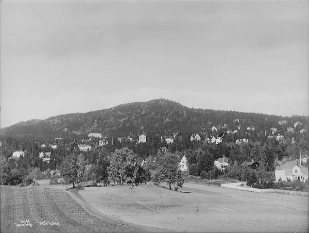 The hill and neighbourhood Vettakollen in the borough of Vestre Aker in Oslo, Norway. Seen from the nearby neighbourhood Slemdal.